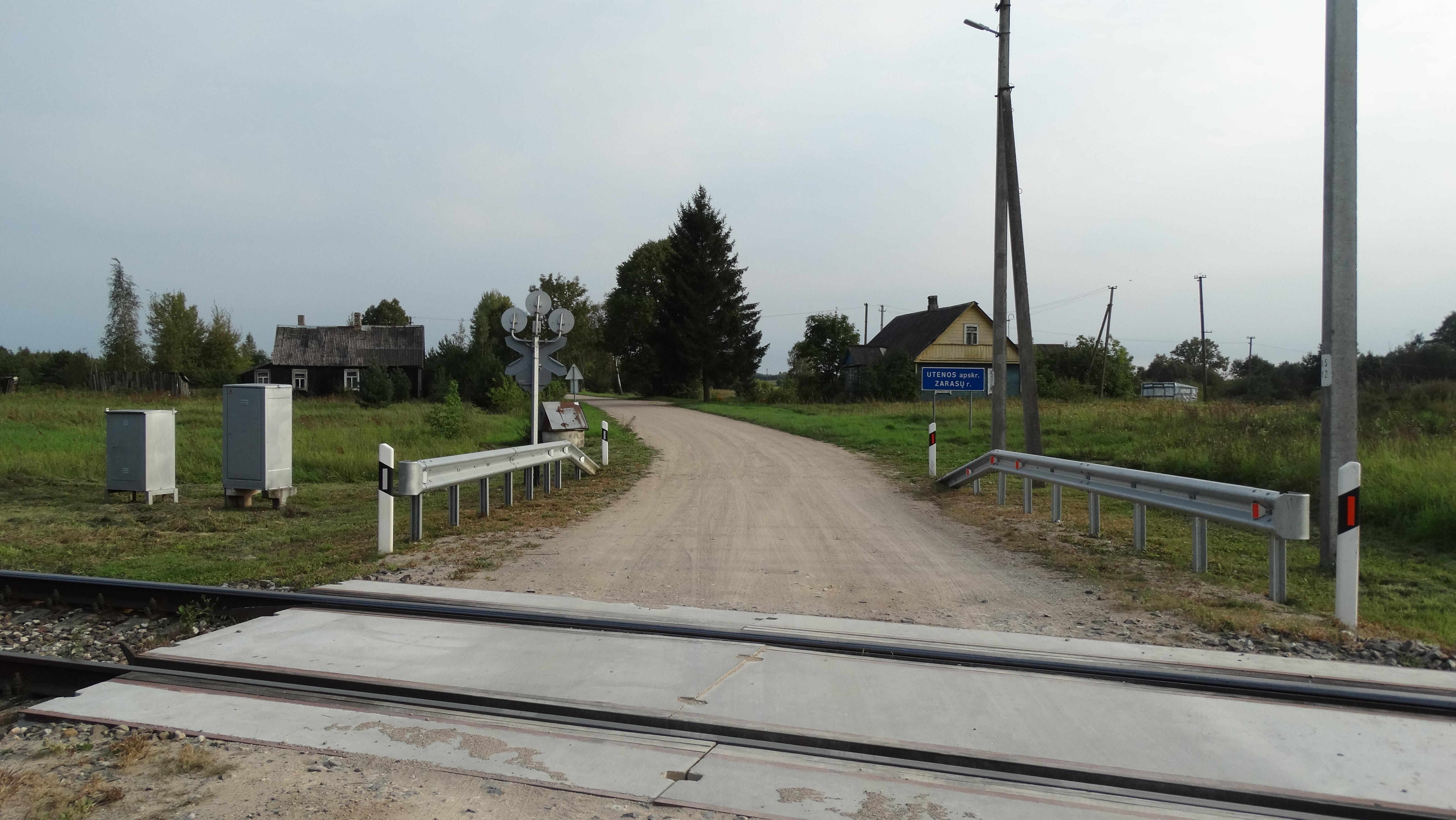 Barauka, Zarasai District, Lithuania